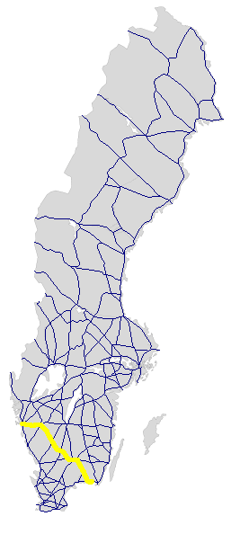 Map of Swedish riksväg (road) 27